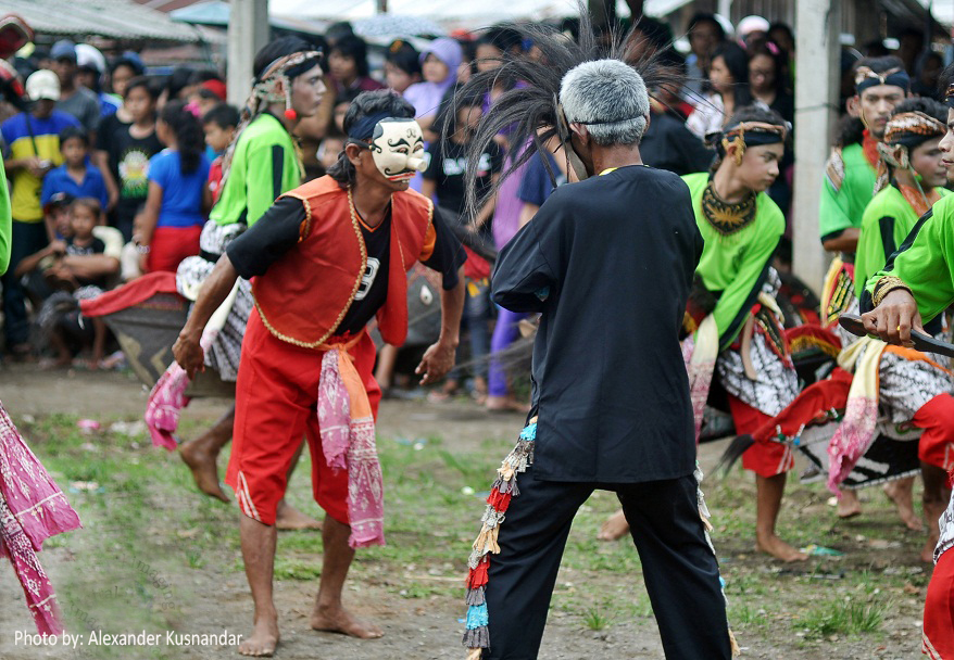 Ebeg atau kuda lumping